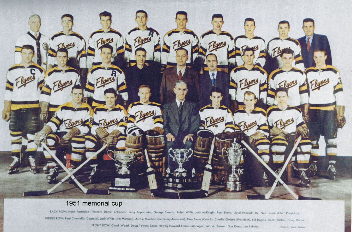 Bottom right is Leo Labine